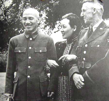 1942 photo of Chiang Kai-shek, Soong May-long and General Stilwell in Burma.